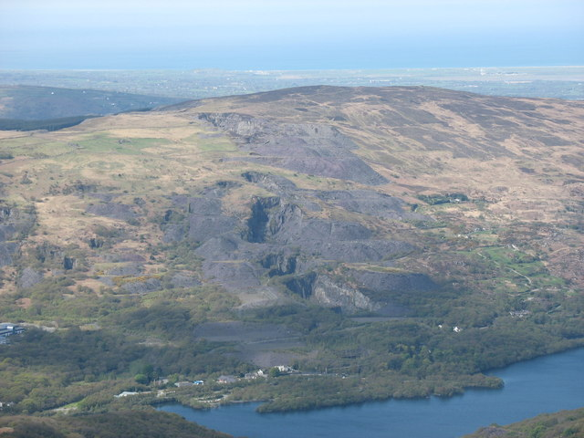 The Cefn Du Quarries. This view from Elidir Fach across Llyn Padarn shows the string of slate quarries strung along the eastern slope of Cefn Du.Unlike the mainly open, gallery type quarries of the Glyderau, those of Cefn Du are all pit quarries.